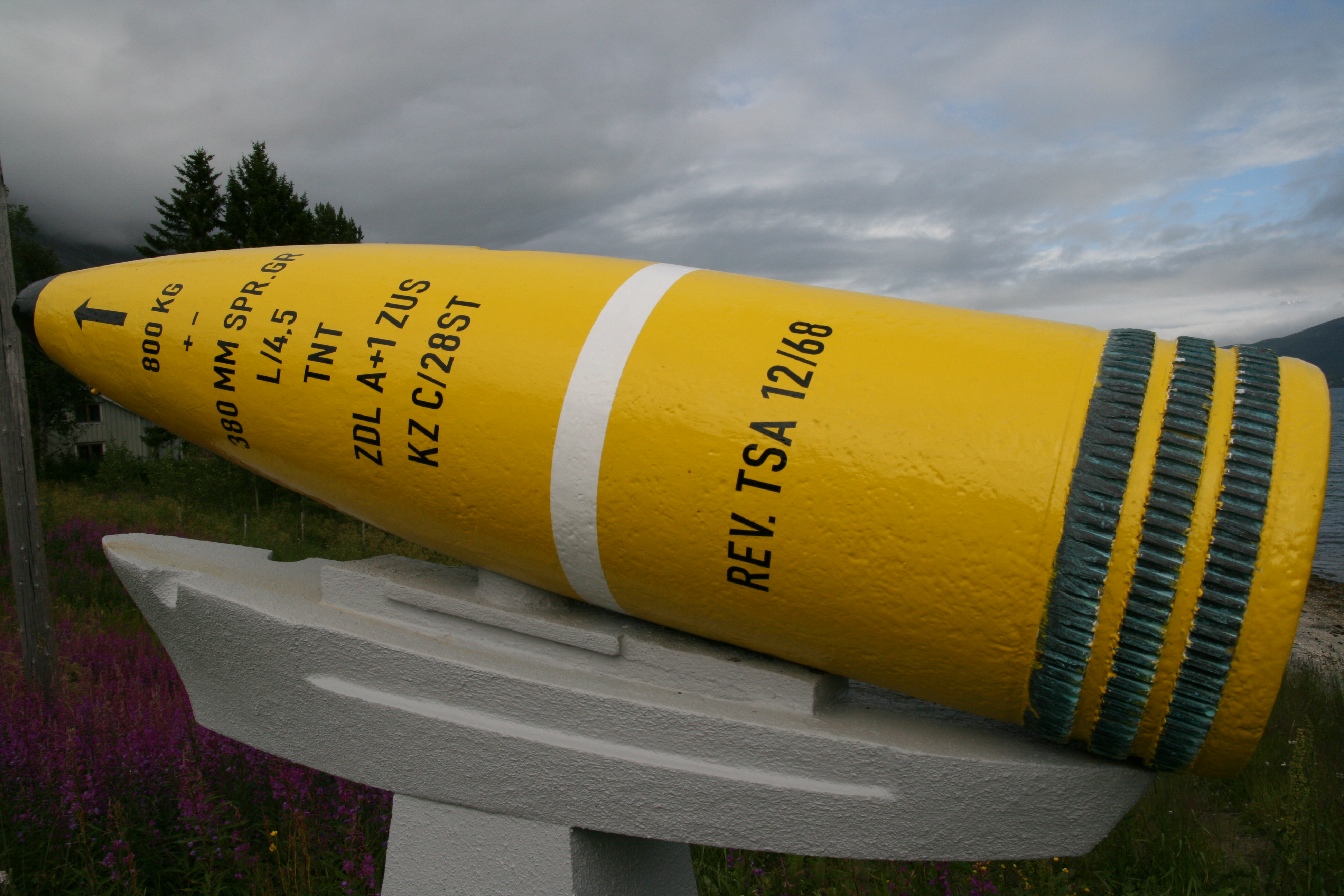 Shell from the German battleship Tirpitz, fired 1944-10-29. The shell was found unexploded in 1968 in Ullsfjord, Norway.